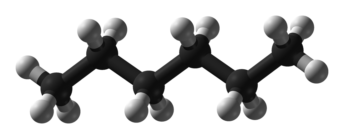 Ball-and-stick model of the hexane molecule, C6H14, as found in the crystal structure at 90 K. Single crystal X-ray diffraction data from Angew. Chem. Int. Ed. (1999) 38, 988–992. Model constructed in CrystalMaker 8.1. Image generated in Accelrys DS Visualizer.